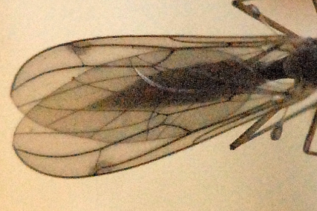 Picture taken in Commanster, Belgian High Ardennes . Species: Bolitophila (Bolitophila) cinerea, wing detail